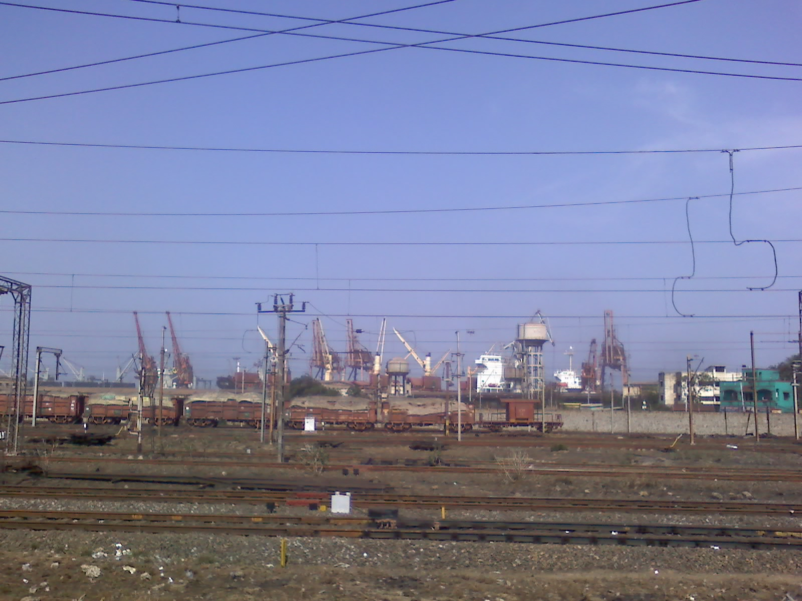 A view of High Court Beach from the Chennai Beach Railway Station.